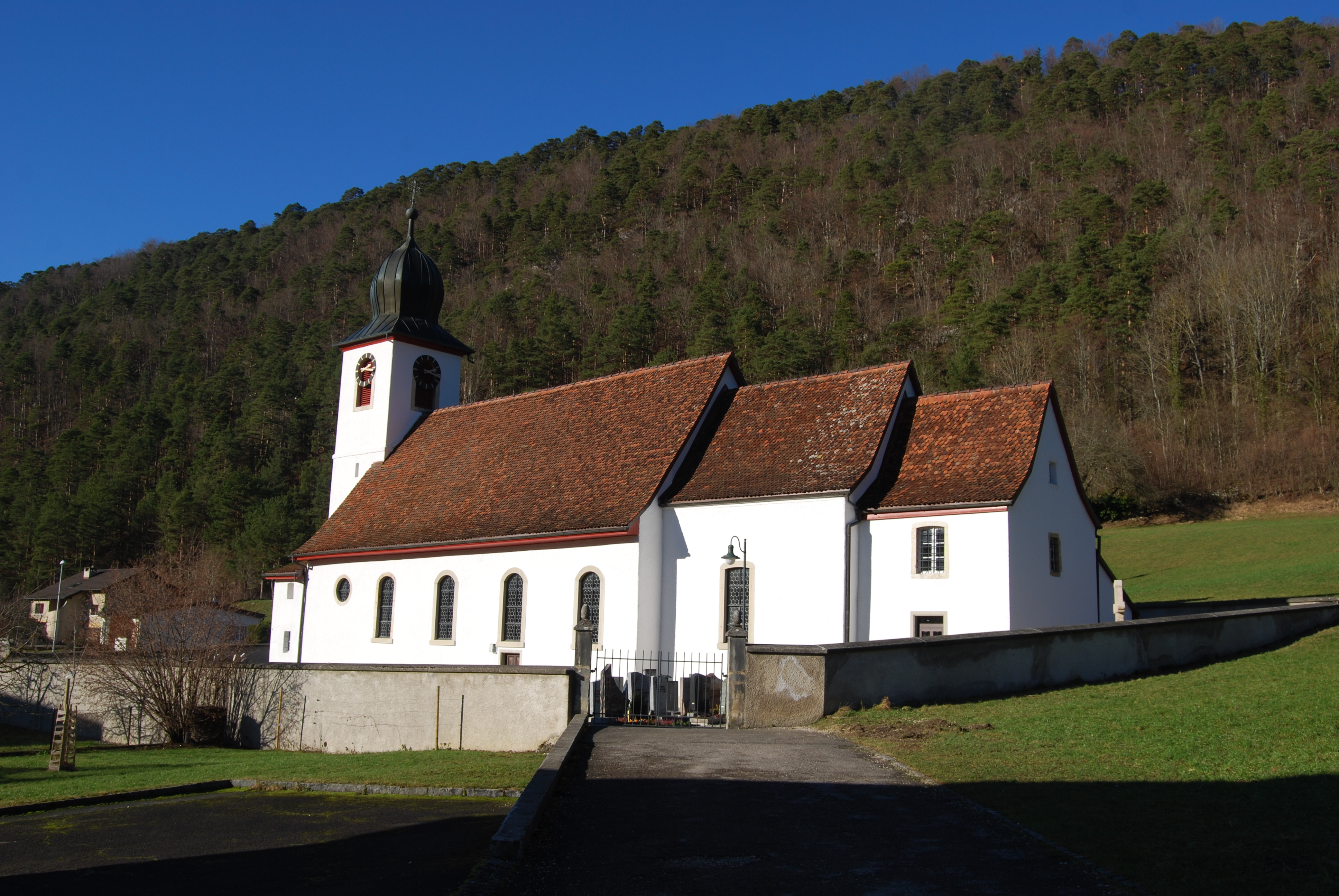 Church of Vermes, canton of Jura, Switzerland